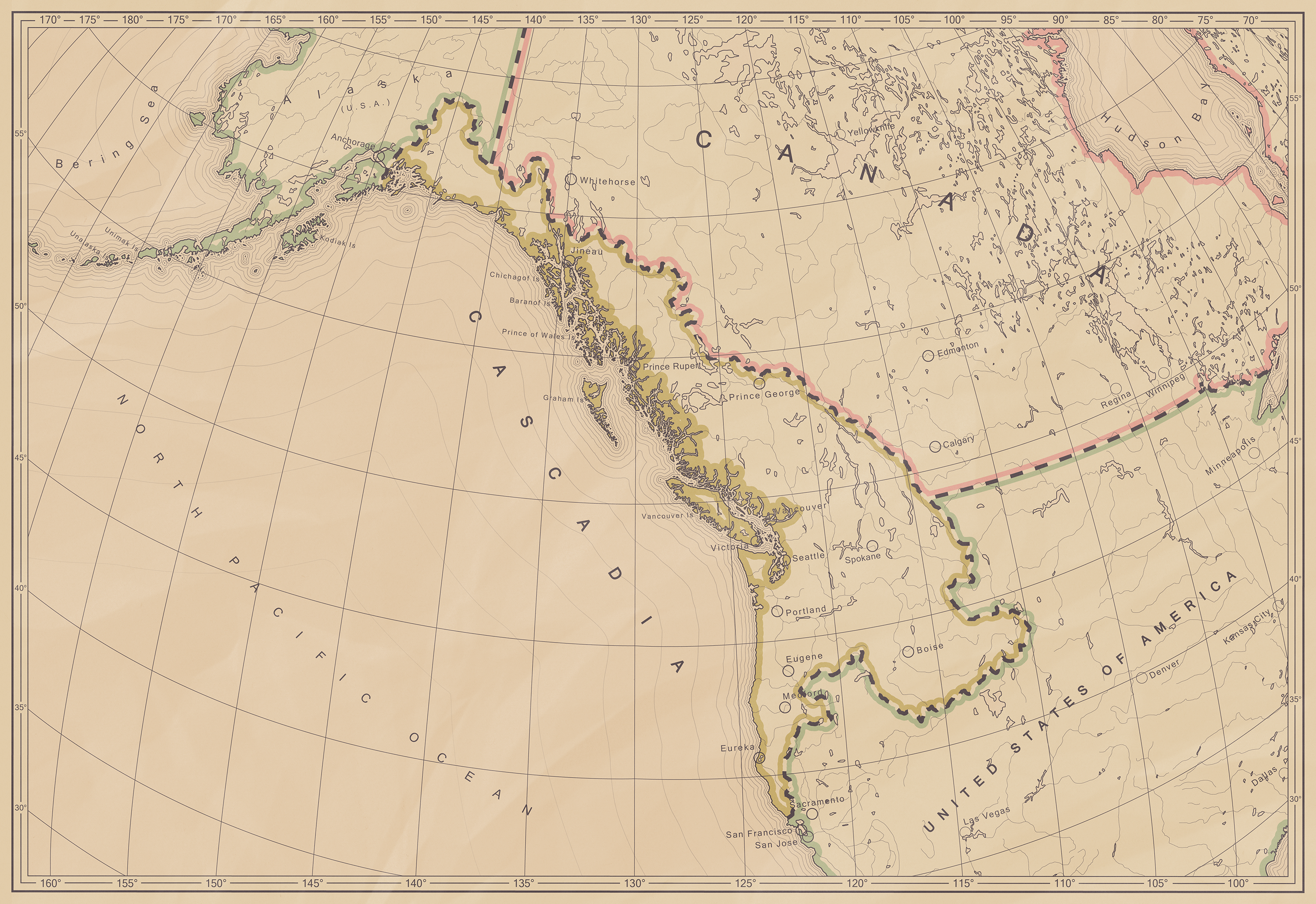 The bioregion of Cascadia